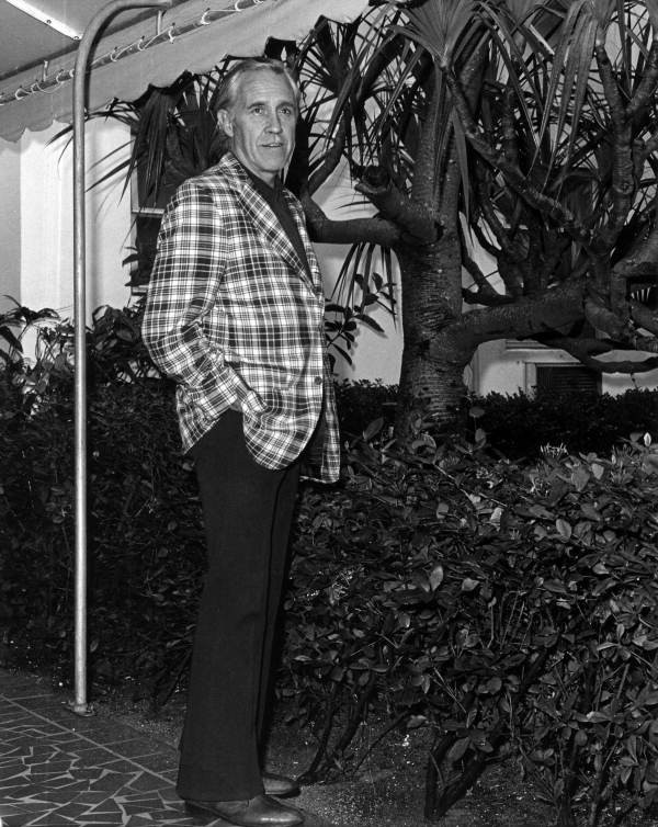 Portrait of actor Jason Robards at the Lago Mar: Fort Lauderdale, Florida